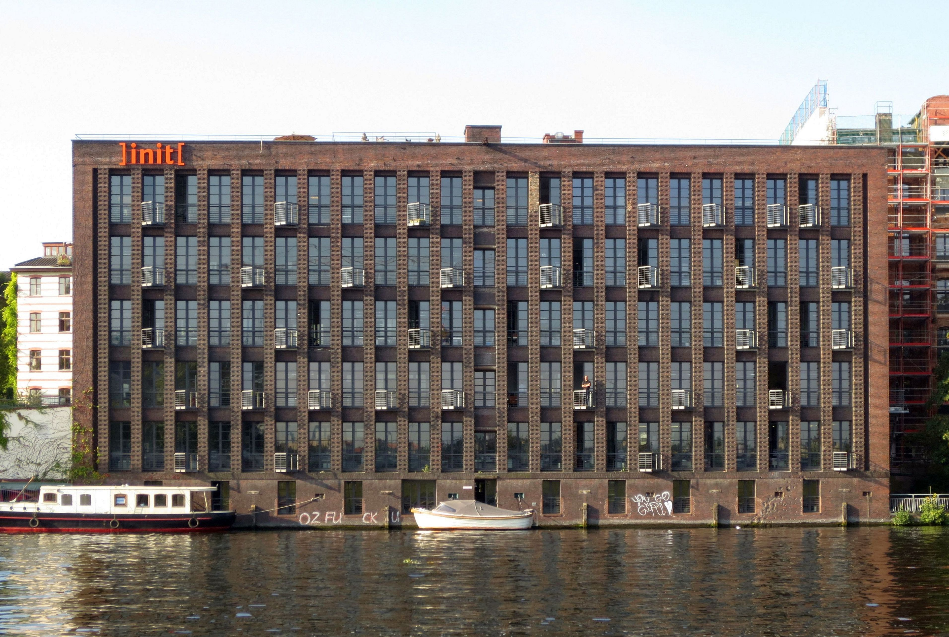 Former factory building of the sewing machine manufacturer Singer at Köpenicker Straße No. 9 in Berlin-Kreuzberg. The structures on the compound, a factory building and a residential and storage building, were constructed in 1928. From 1939 on, Singer's general office for Berlin was also located here. The complex is part of the protected historic buildings area Köpenicker Straße.